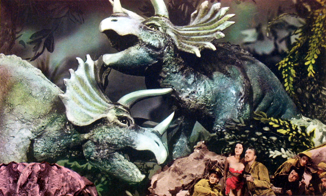 Cropped and edited lobby card for Lost Continent (Lippert Pictures, 1951). Image is assumed to be in the public domain as no copyright notice is in evidence.